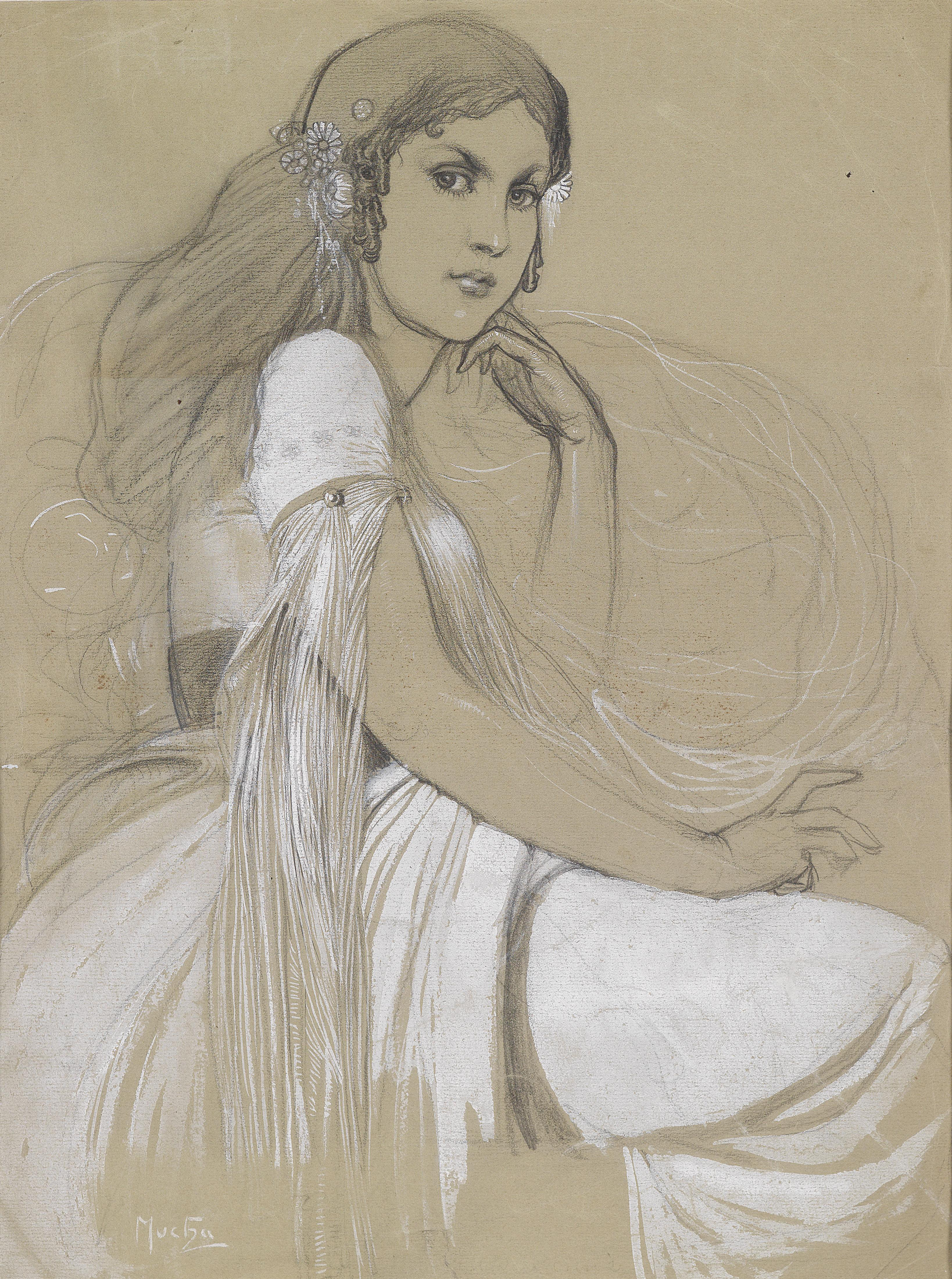 Depicted person: Jaroslava Mucha, the artist's daughter.